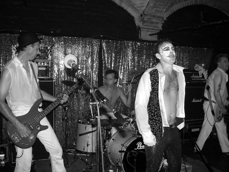 The Adicts Live in Wiesbaden, Germany August 2006